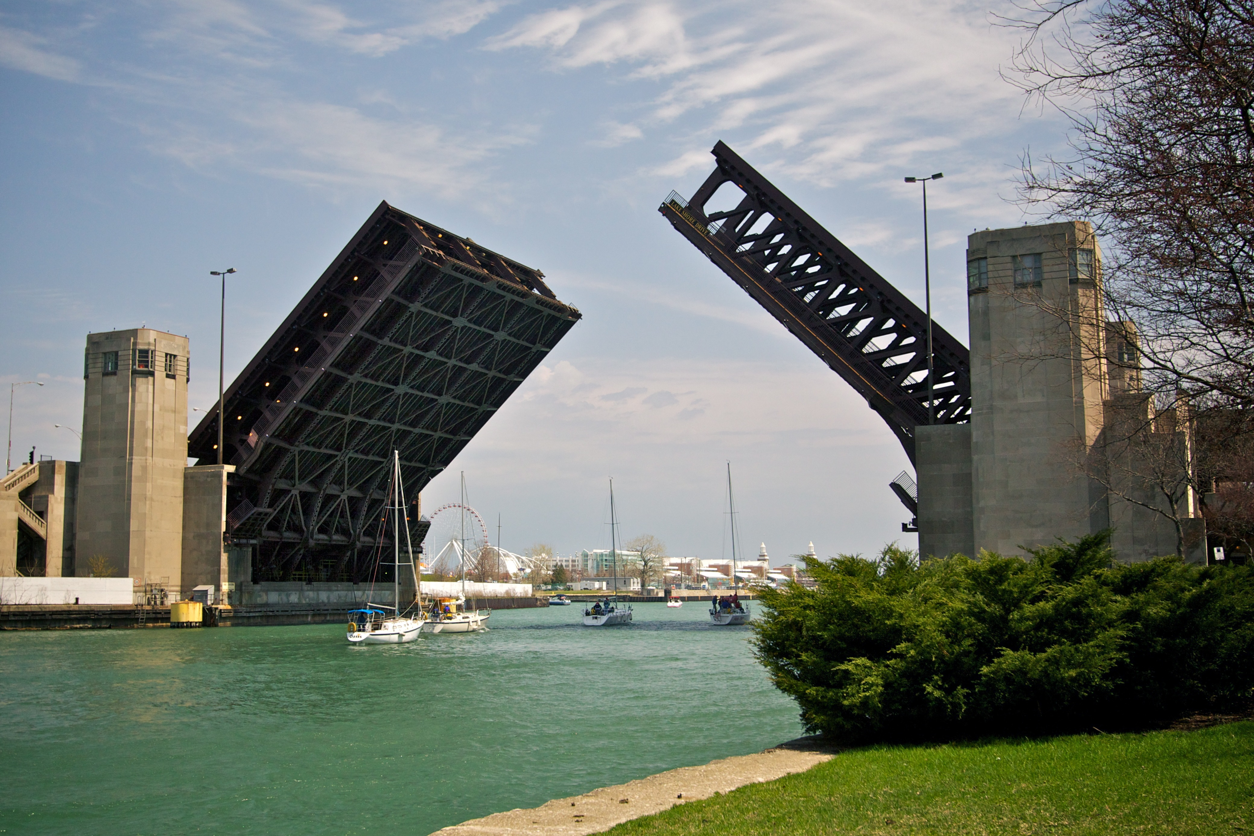 The Outer Drive Bridge (commonly called the Link Bridge), on Lake Shore Drive in Chicago, is a double-deck bascule bridge that was completed in 1937. In this 2011 photo, it has opened to allow several sailboats to pass underneath.